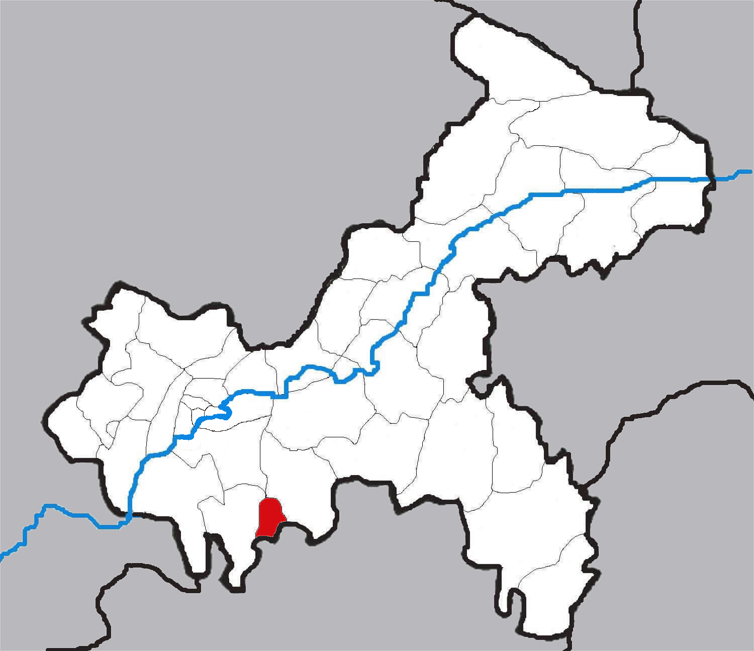 Administration maps of Chongqing, China